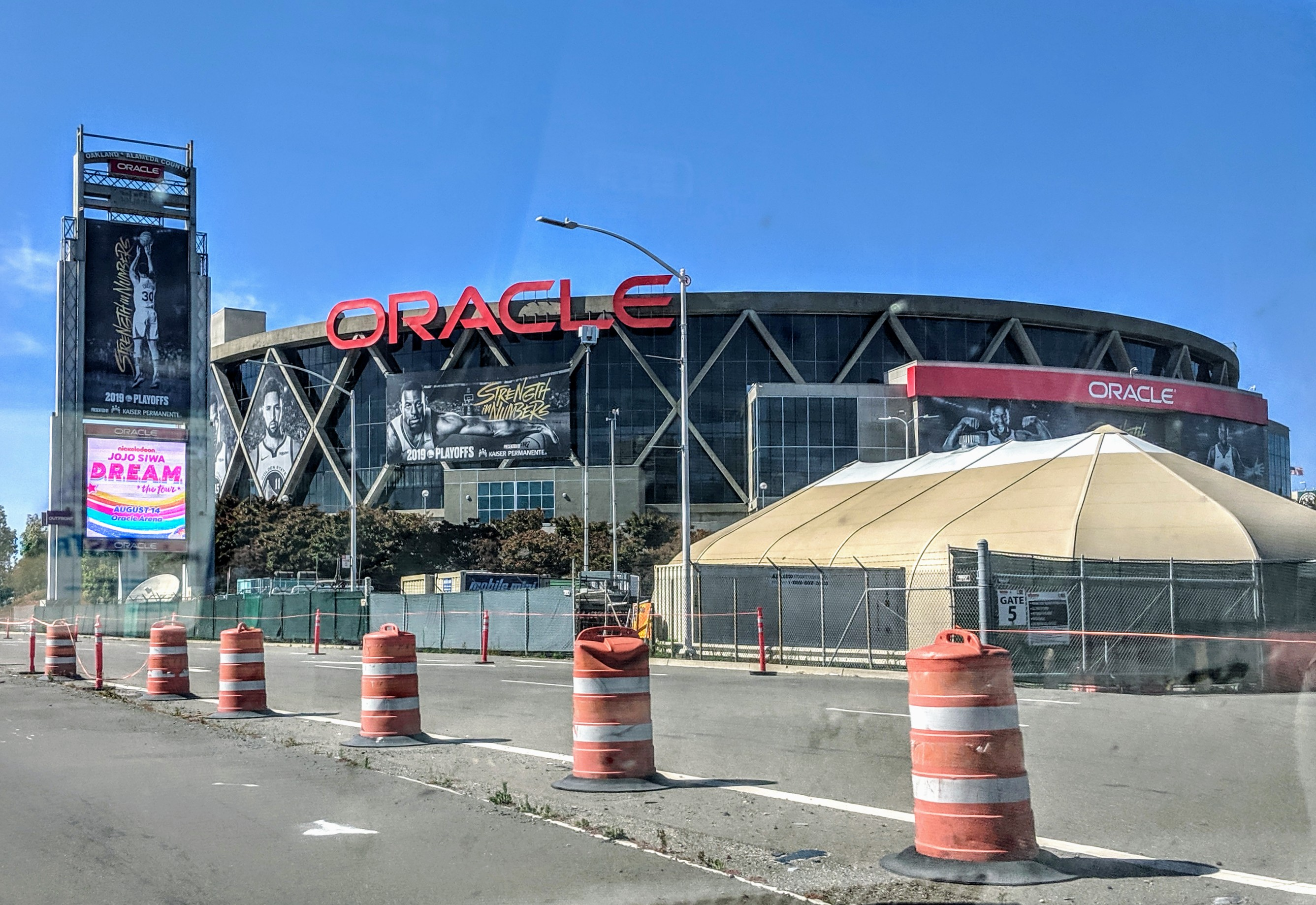 The Oracle Arena in Oakland, California, during the NBA finals in June, 2019. Photo by Jim Heaphy